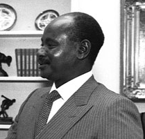 Cropped version of picture of President Yoweri Museveni of Uganda meeting with President Ronald Reagan at the White House, October 1987.